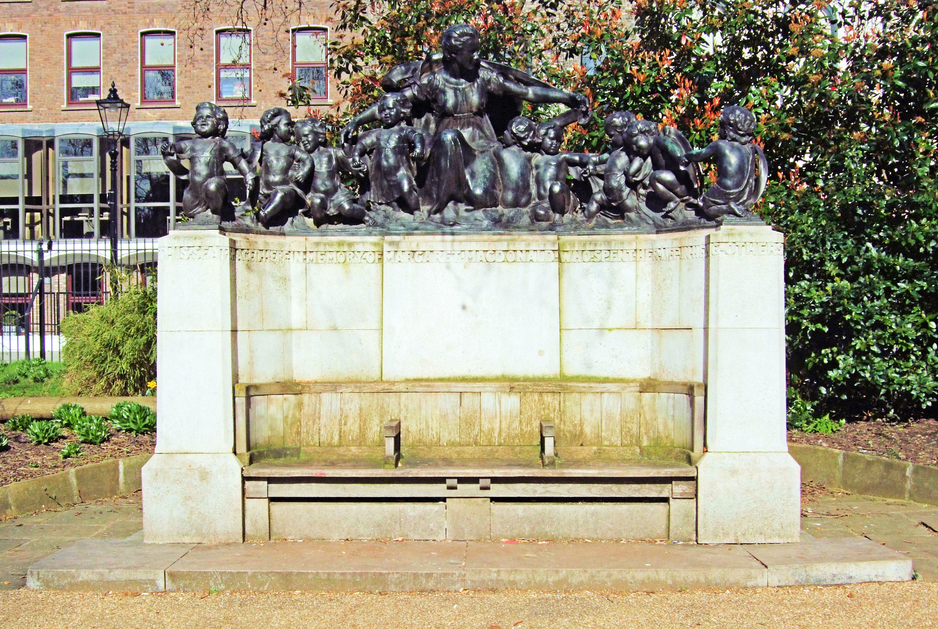 Margaret MacDonald was a noted feminist and socialist (1870 to 1911). She worked with children and was greatly loved by all who knew her.